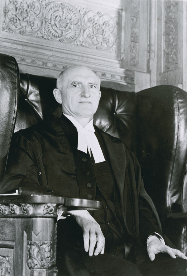 Hon. William Ross Macdonald, M.P. Speaker